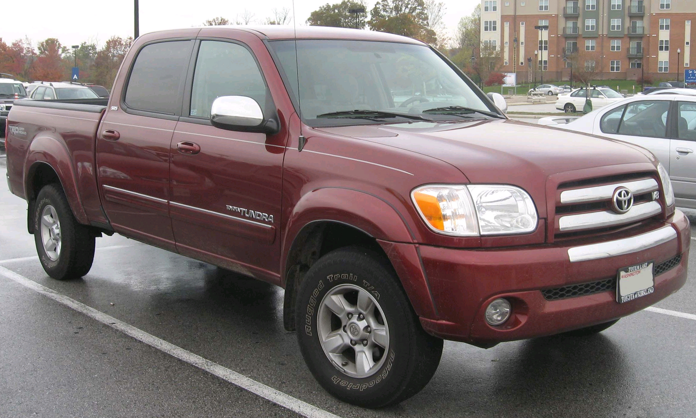 2004-2006 Toyota Tundra photographed in College Park, Maryland, USA.